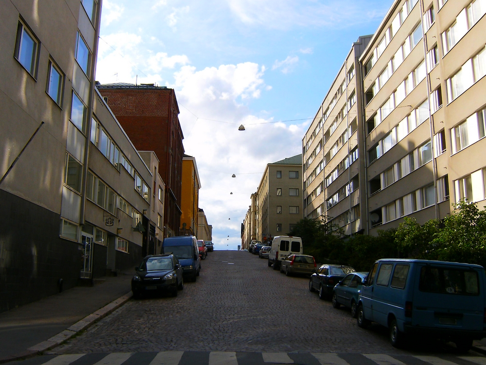 The south-eastern section of the street Albertinkatu in Helsinki, Finland